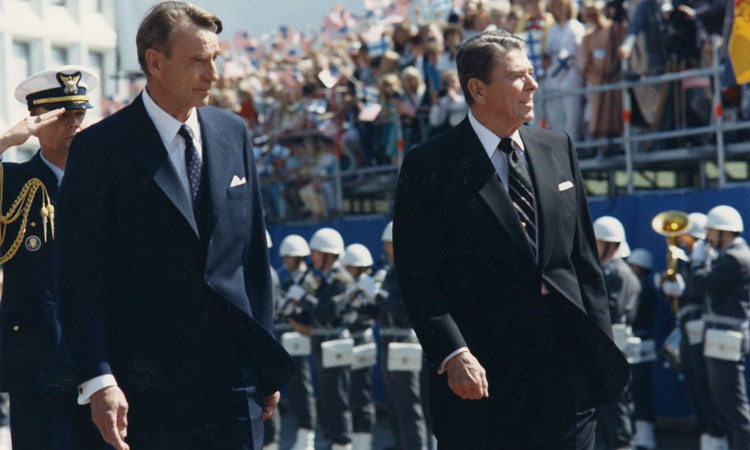 KoivistoandRegan